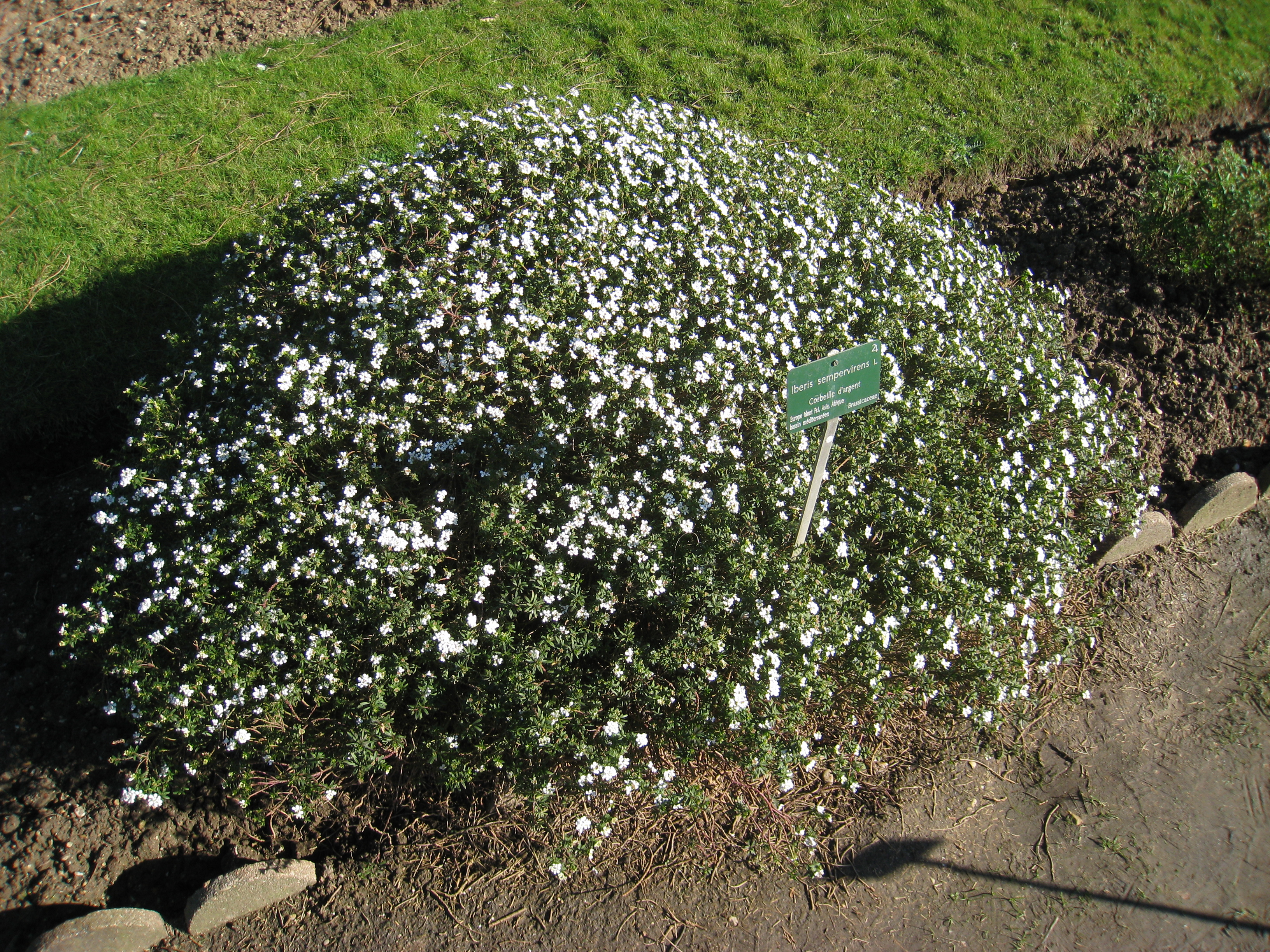 Iberis sempervirens in the Jardin des Plantes de Paris, Paris, France.